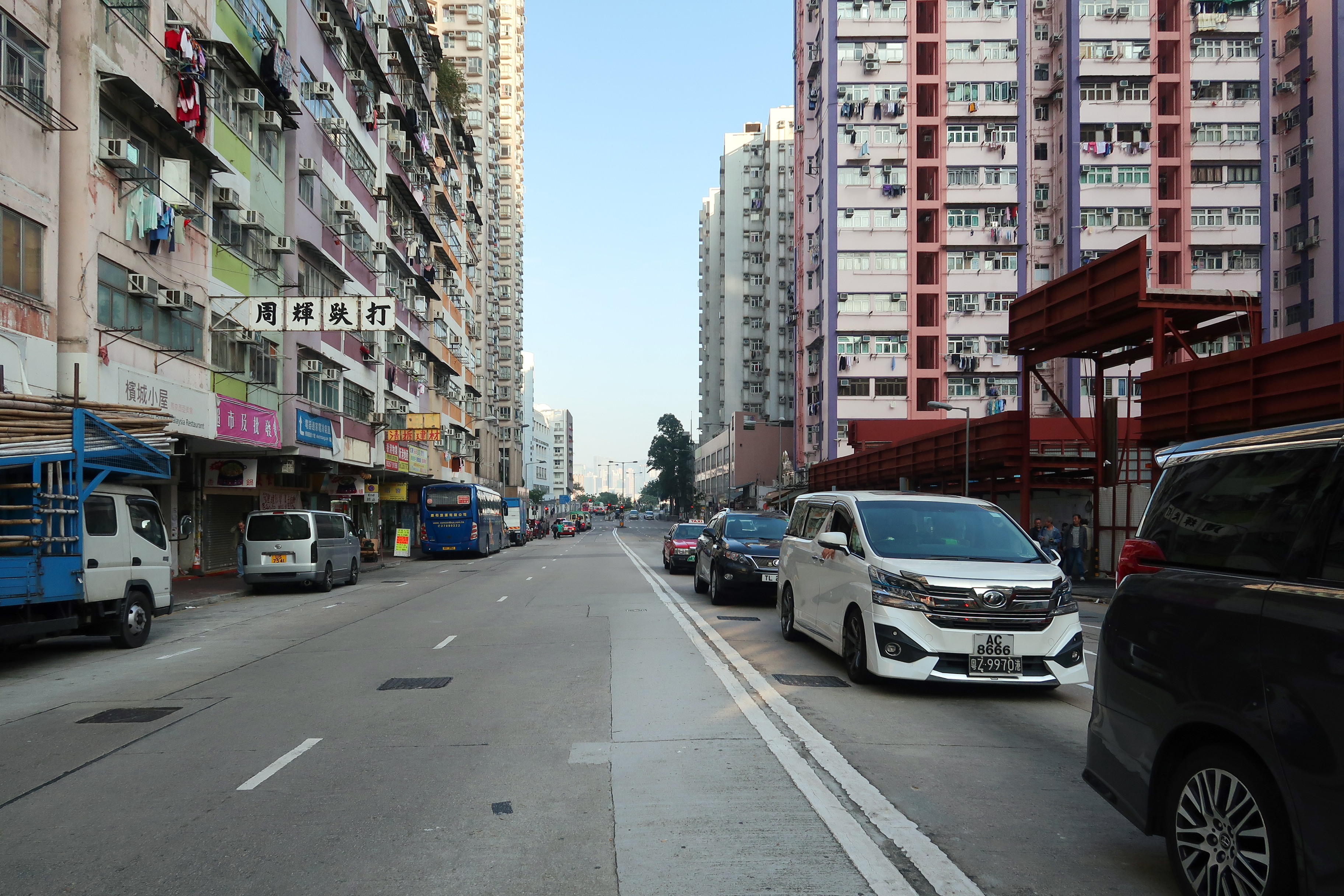 Bailey Street